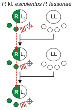 Hybridogenesis is a hemiclonal mode of reproduction (red arrows). Population system L-E here.